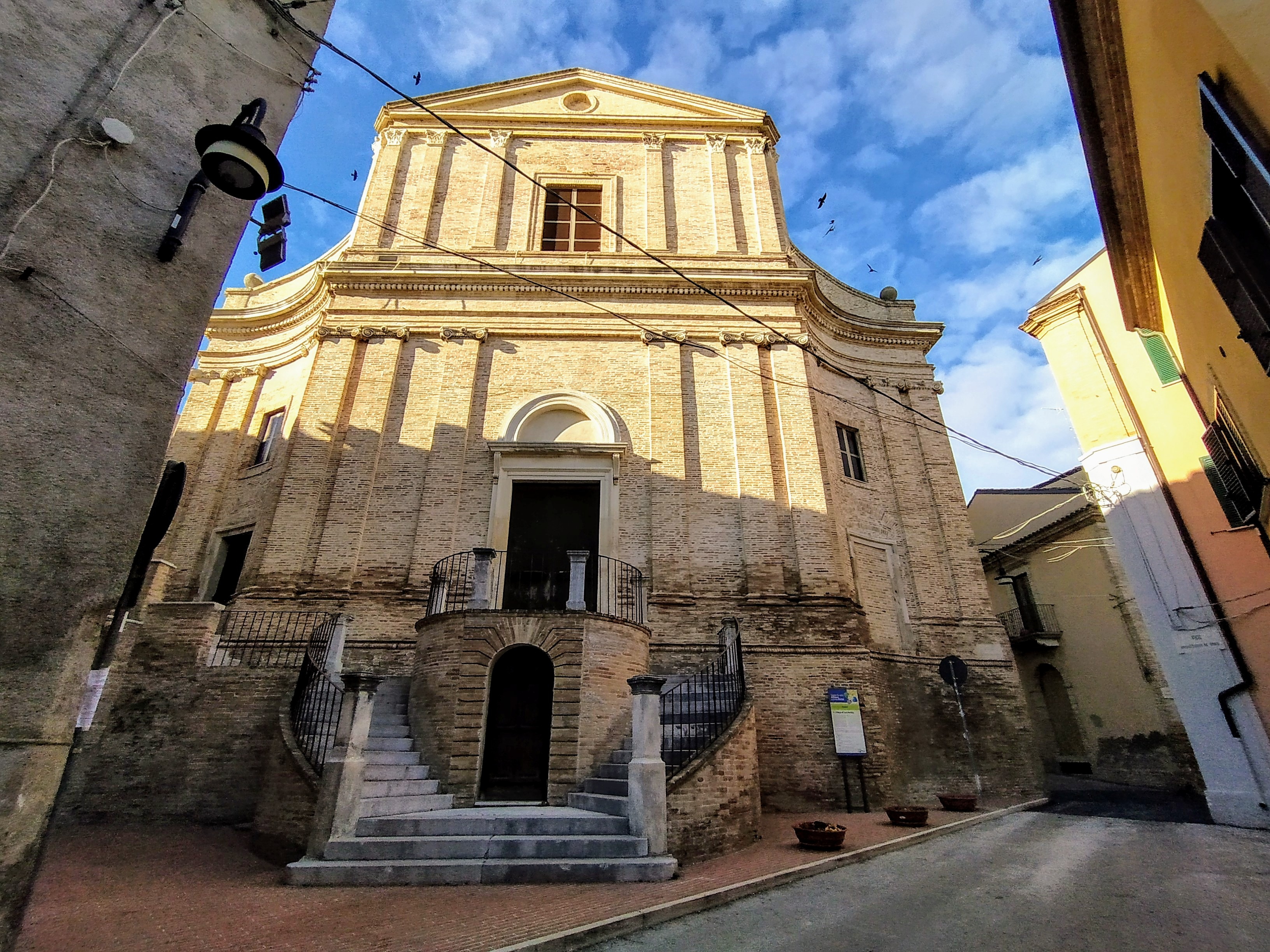 Facciata